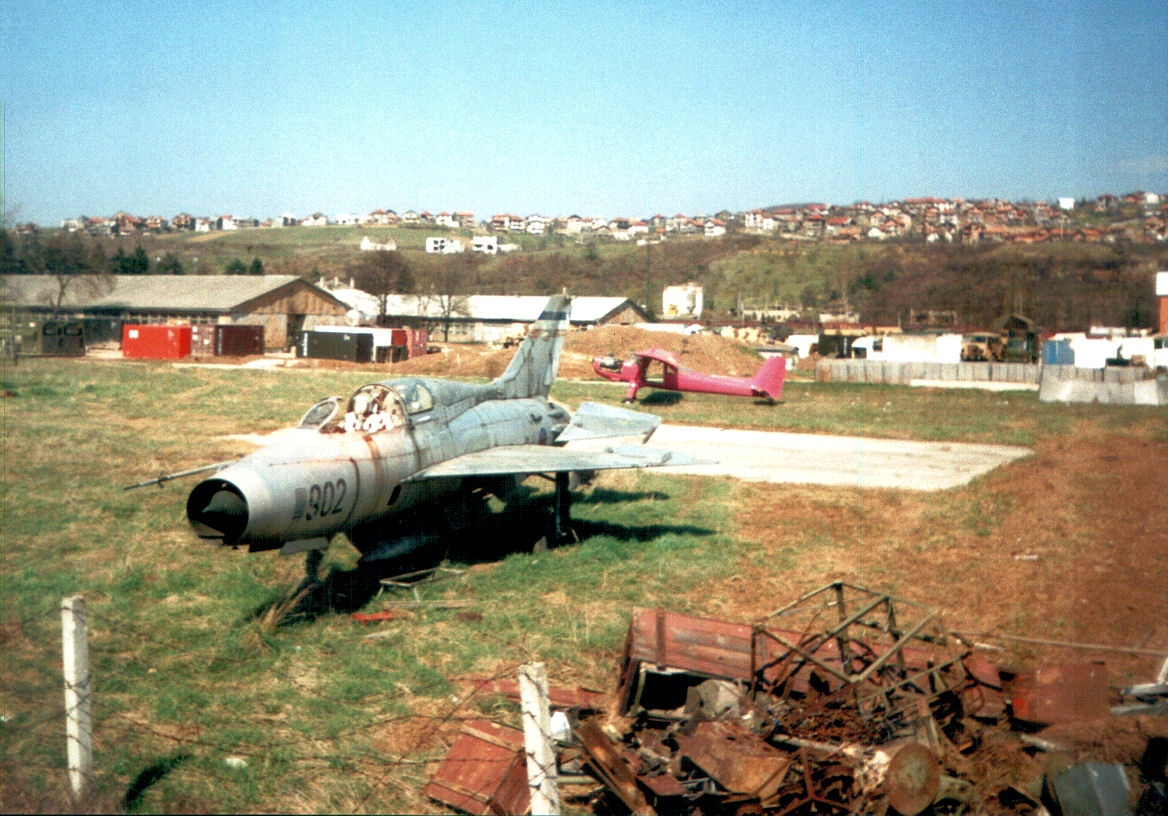 old MiG-21 from the old military air base in SFOR-Camp Rajlovac near Sarajevo